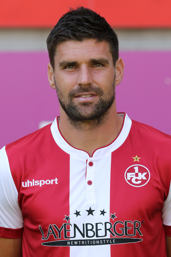 Florian Dick (Nr. 23)